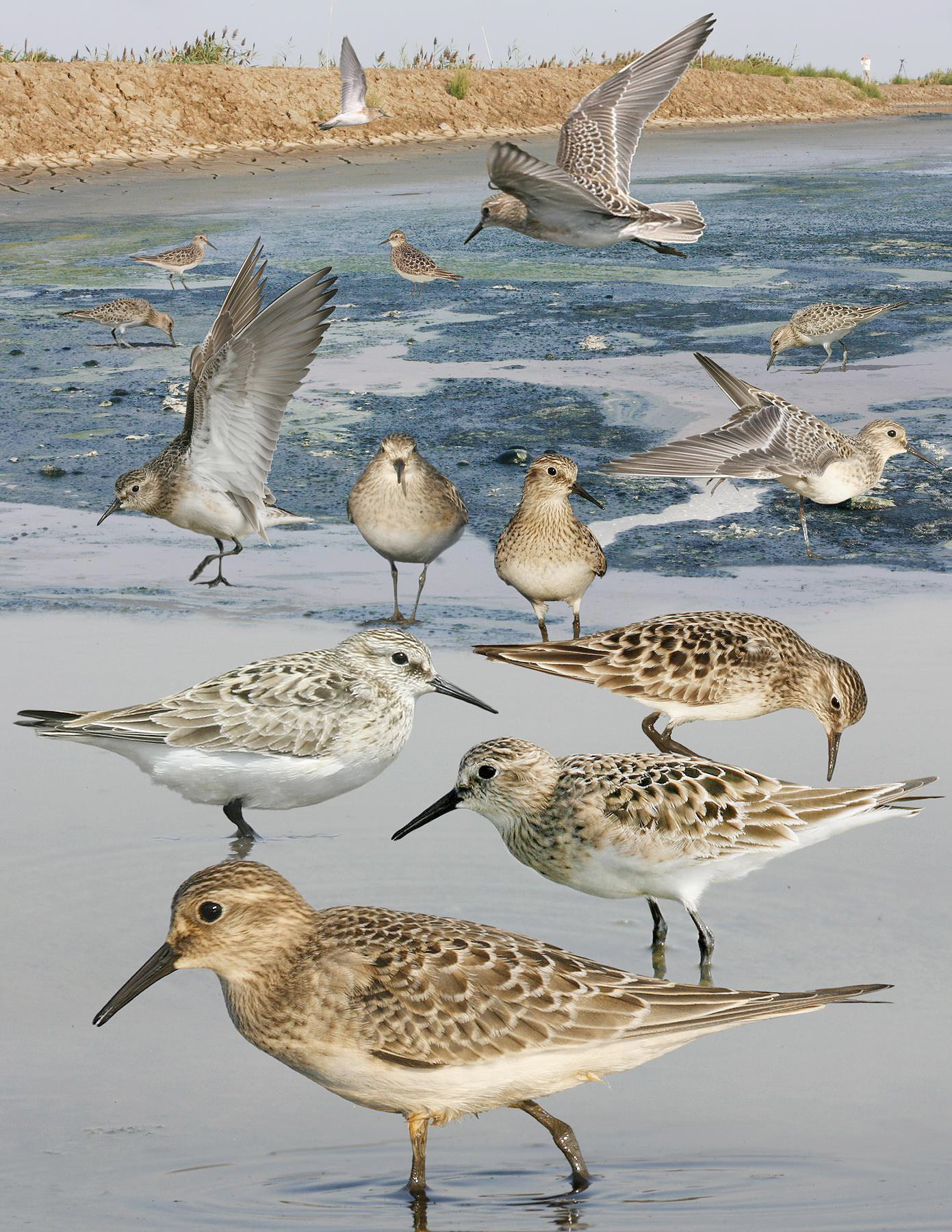 Bairds Sandpiper From The Crossley ID Guide Eastern Birds